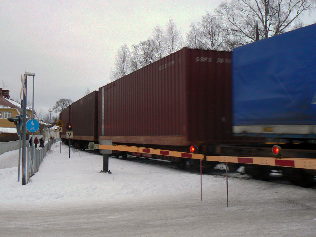 Wagons of a train heading from Grycksbo to Falun i Sweden, carrying products of the paper factory in Grycksbo. Picture taken in central Falun by Skvattram in February 2007.